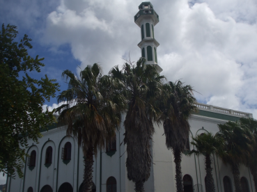 Yusuffia mosque, in Mosque road, Wynberg, Cape Town, South Africa